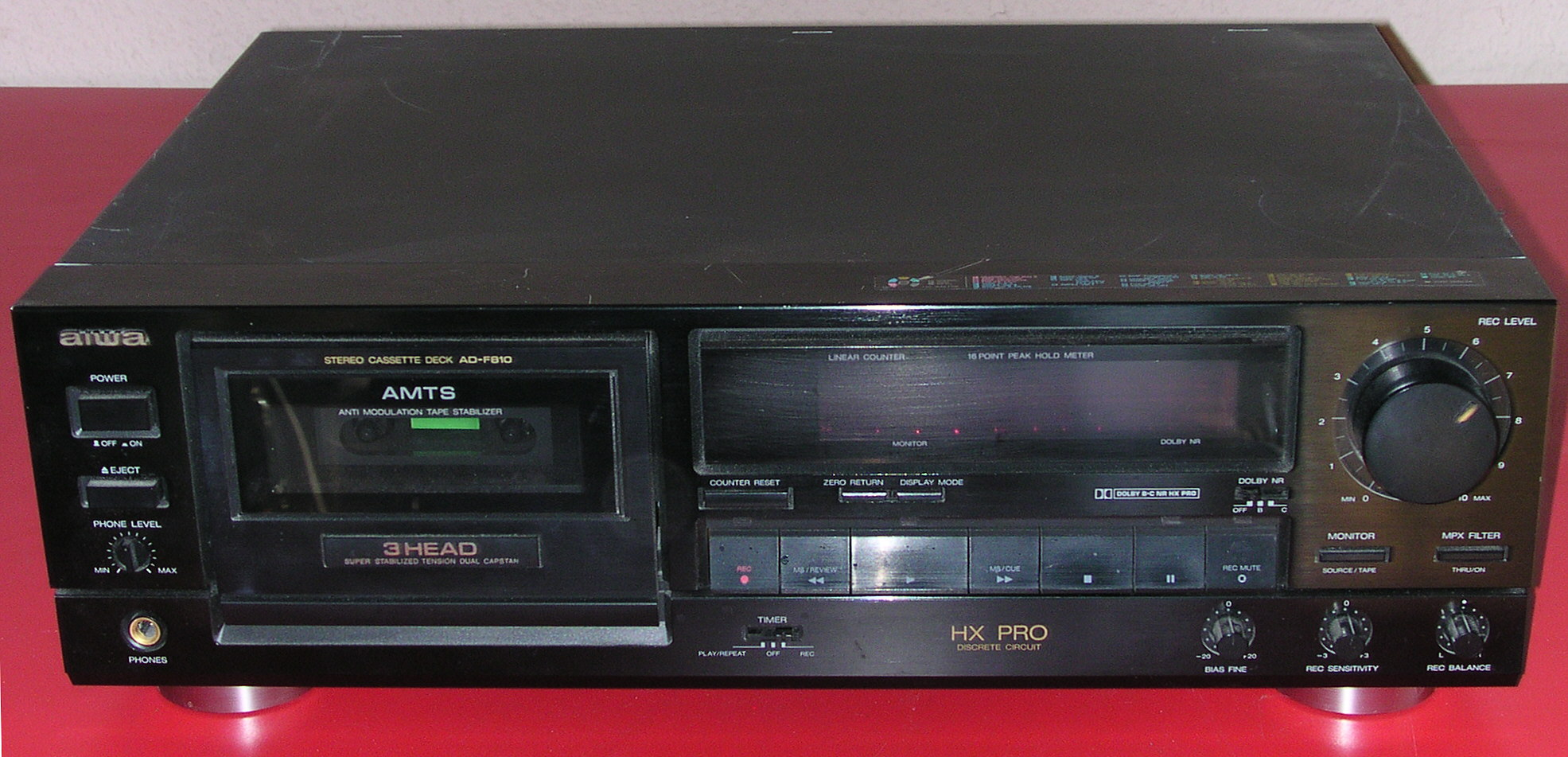 Aiwa F810 tape deck